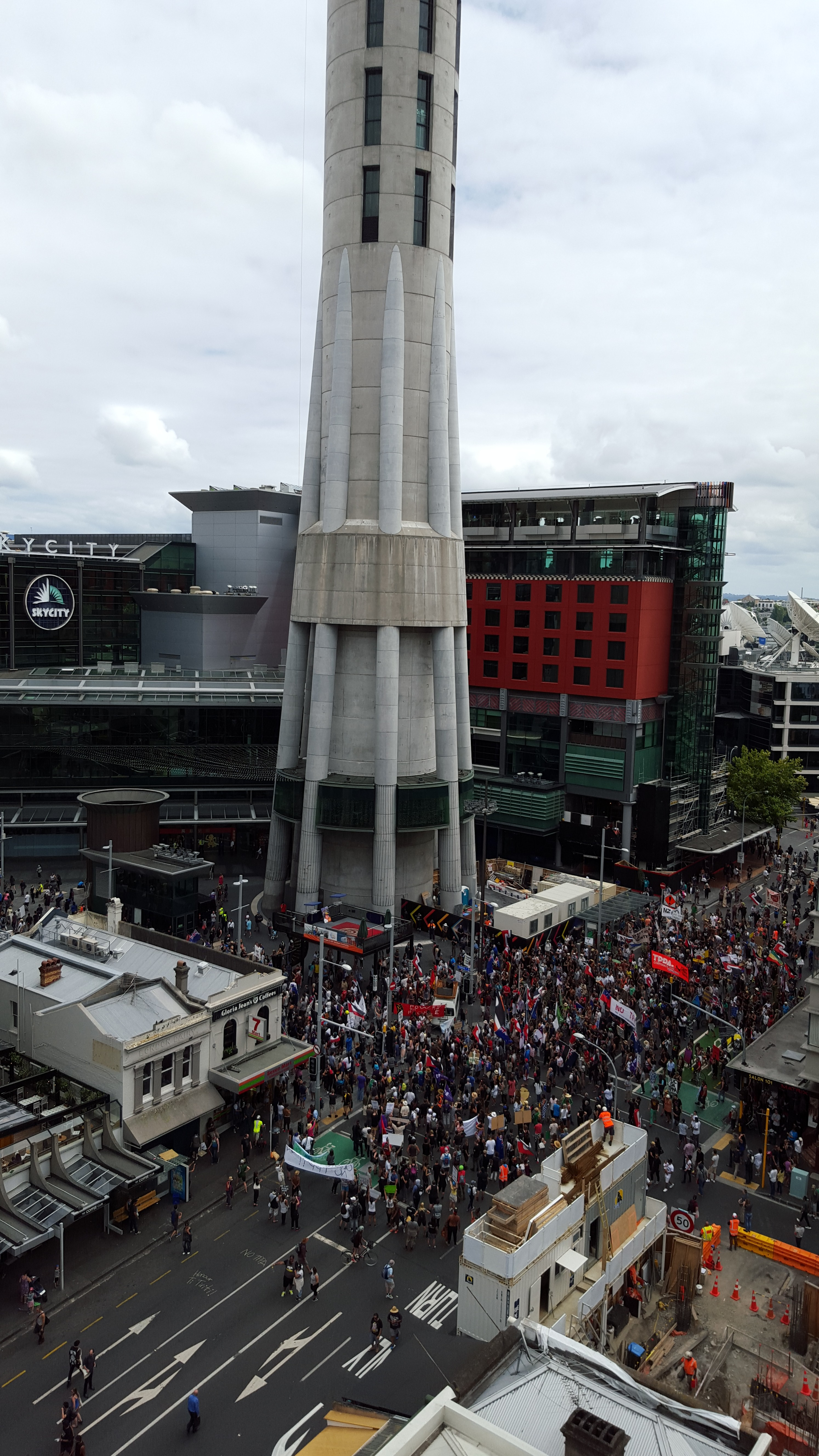 Demonstrators converge at SkyCity to protest the signing of TPPA, happening inside the SkyCity complex in Auckland, New Zealand on 4 February 2016.